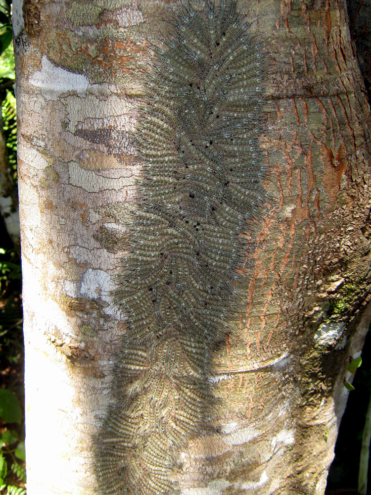 Caterpillars grouped for heat/defense purposes. Uploading to illustrate social caterpillars article on wikipedia.